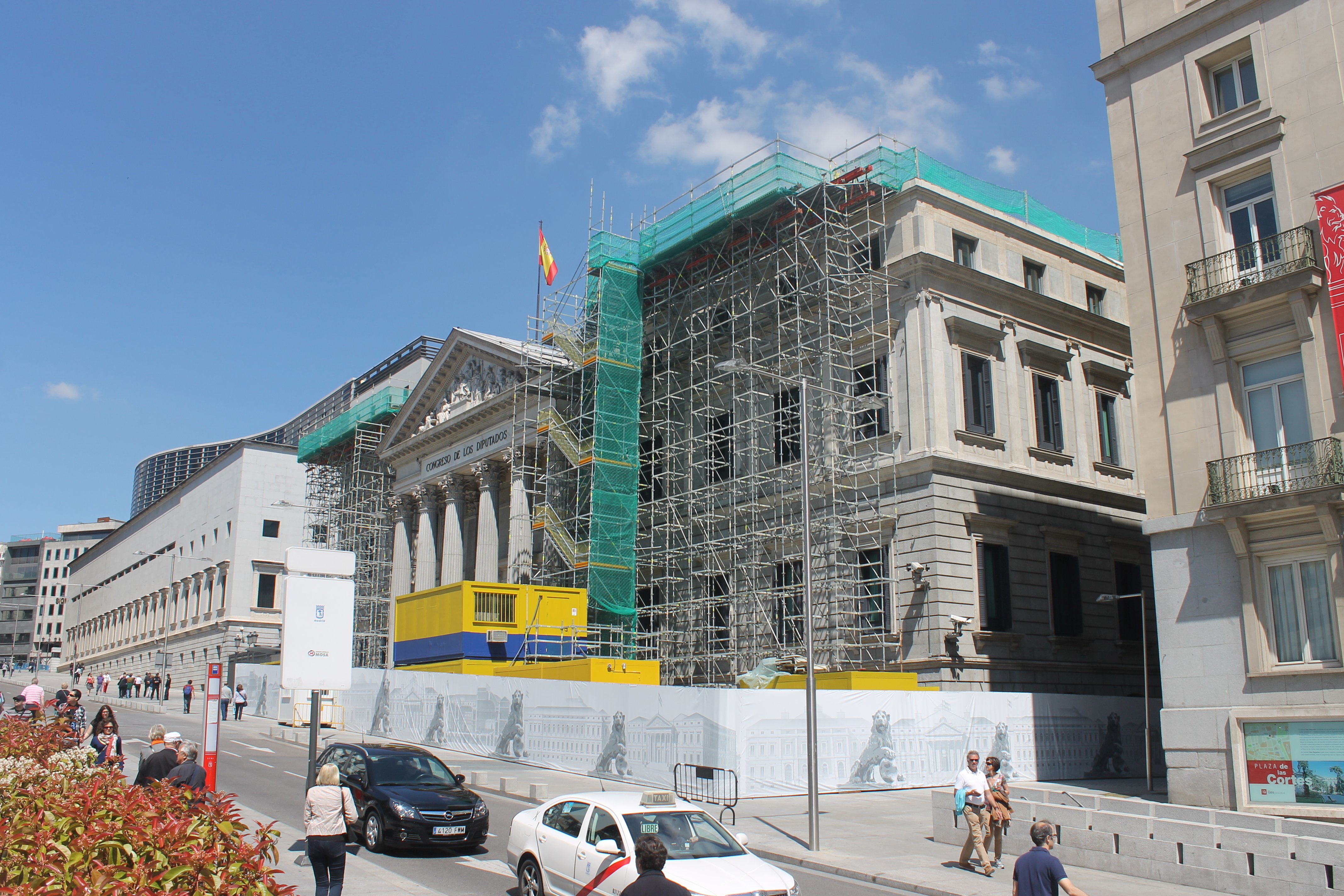 2013 Restoration works in the Congress of Deputies of Madrid